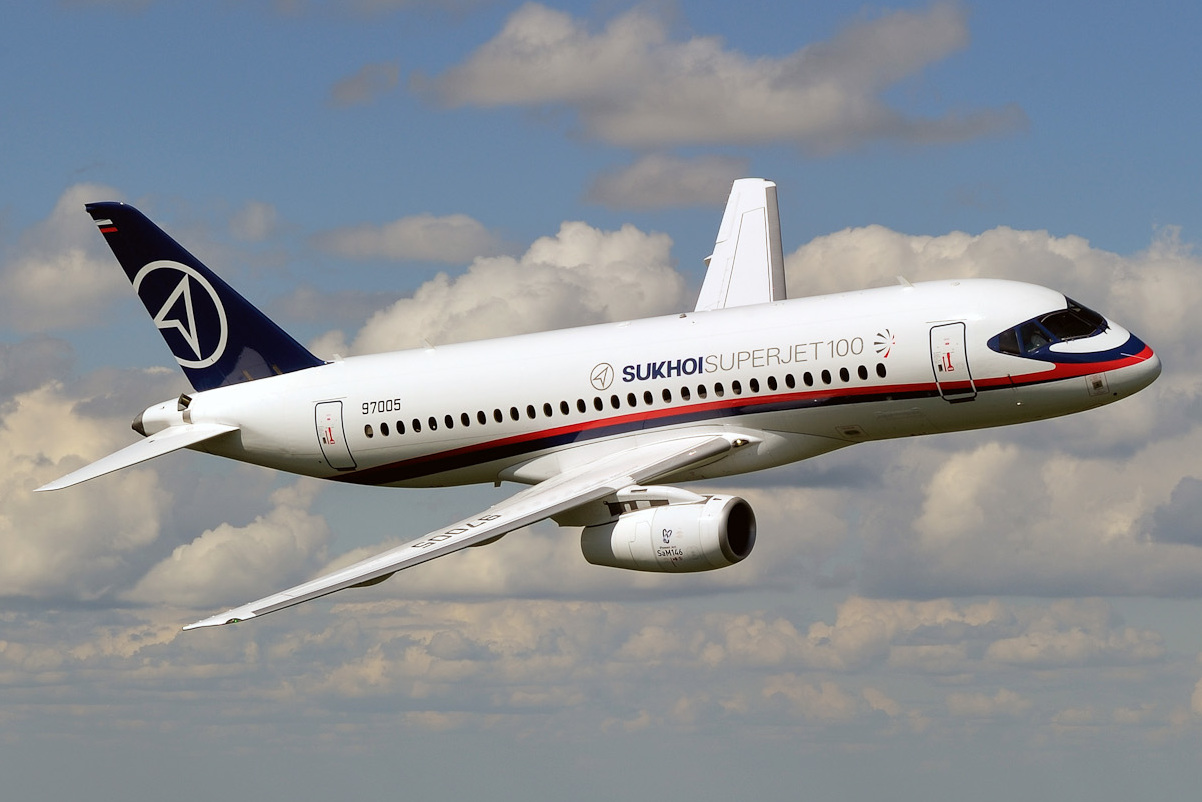 Air-to-air photo shoot of a Sukhoi Superjet 100 (RA-97005) over Italy.